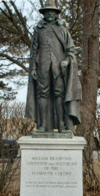 Statue of William Bradford, Plymouth Rock State Park, Massachusetts.